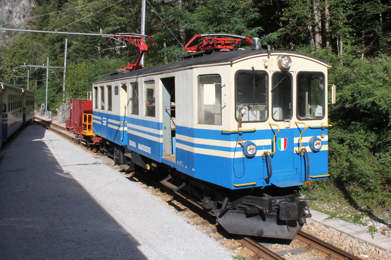 SSIF ABDe 4/4 18 at Olgia 2 train station.